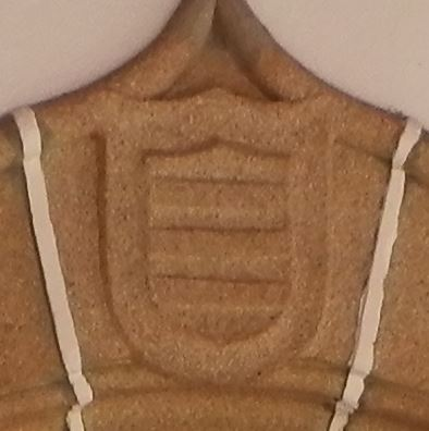 Armas da família Rebelo